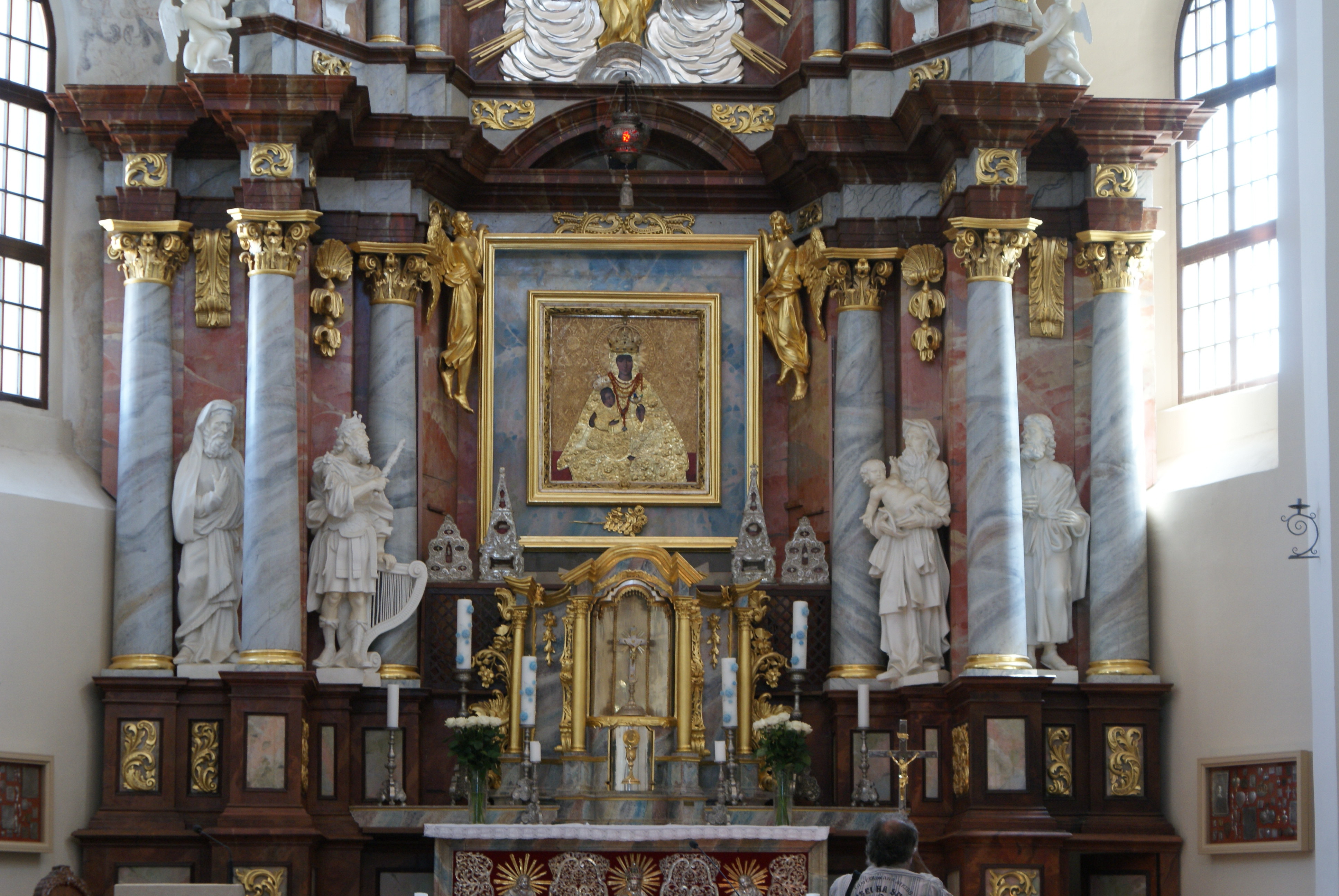 Church of Visitation of Holy Virgin Mary in Trakai